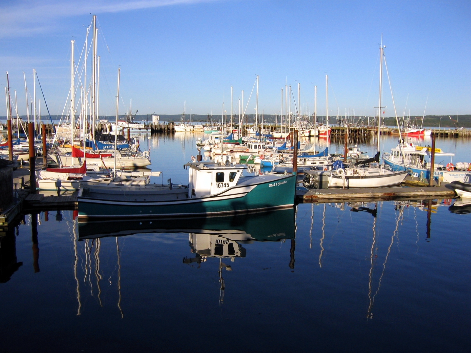 Harbour of Digby, Nova Scotia, Annapolis Basin